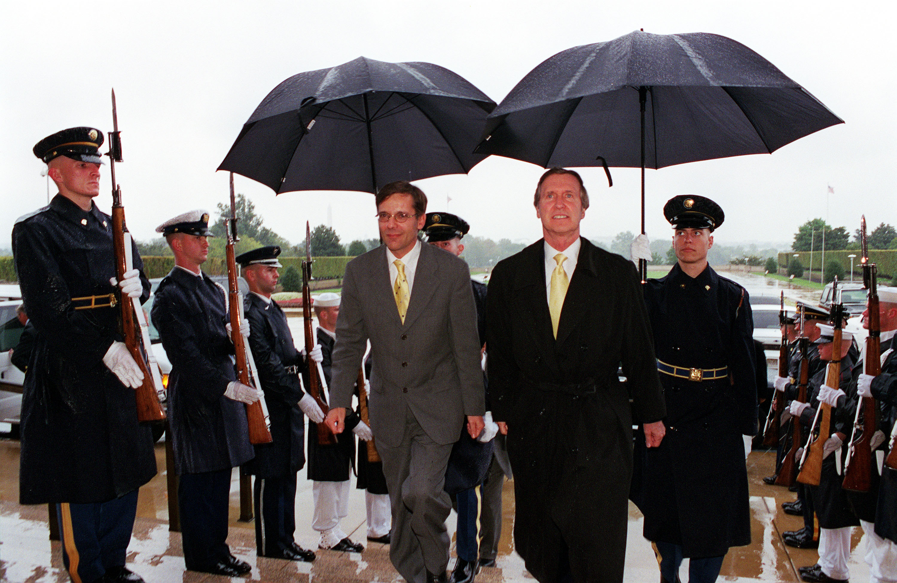 Minister of Defense Frank de Grave, of the Kingdom of the Netherlands, is escorted into the Pentagon by Secretary of Defense William S. Cohen on Sept. 25, 2000. Cohen and de Grave will meet to discuss regional security issues of interest to both nations. DoD photograph by Helene C. Stikkel. (Released)